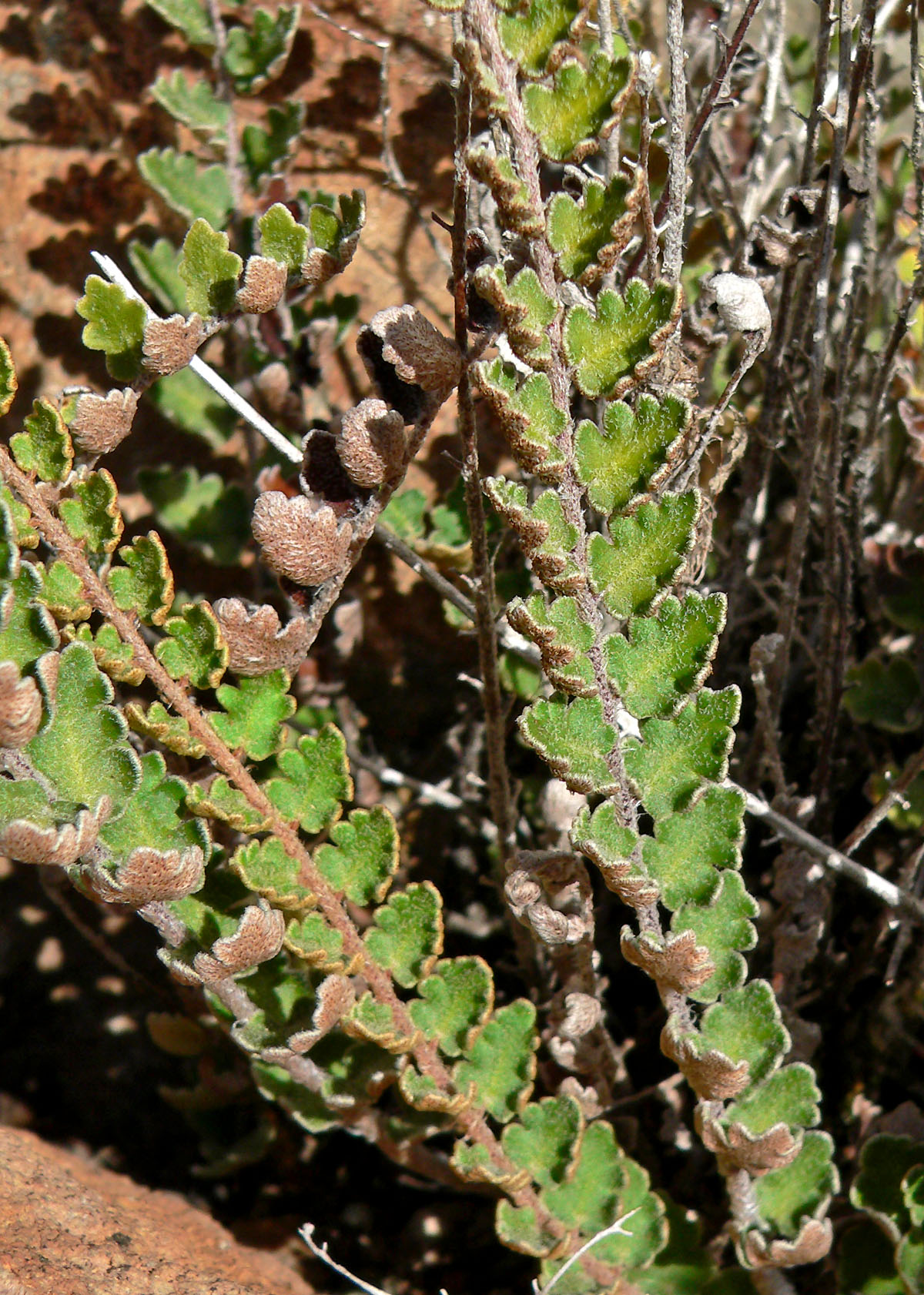 Astrolepis sinuata at the University of California Botanical Garden, Berkeley, California